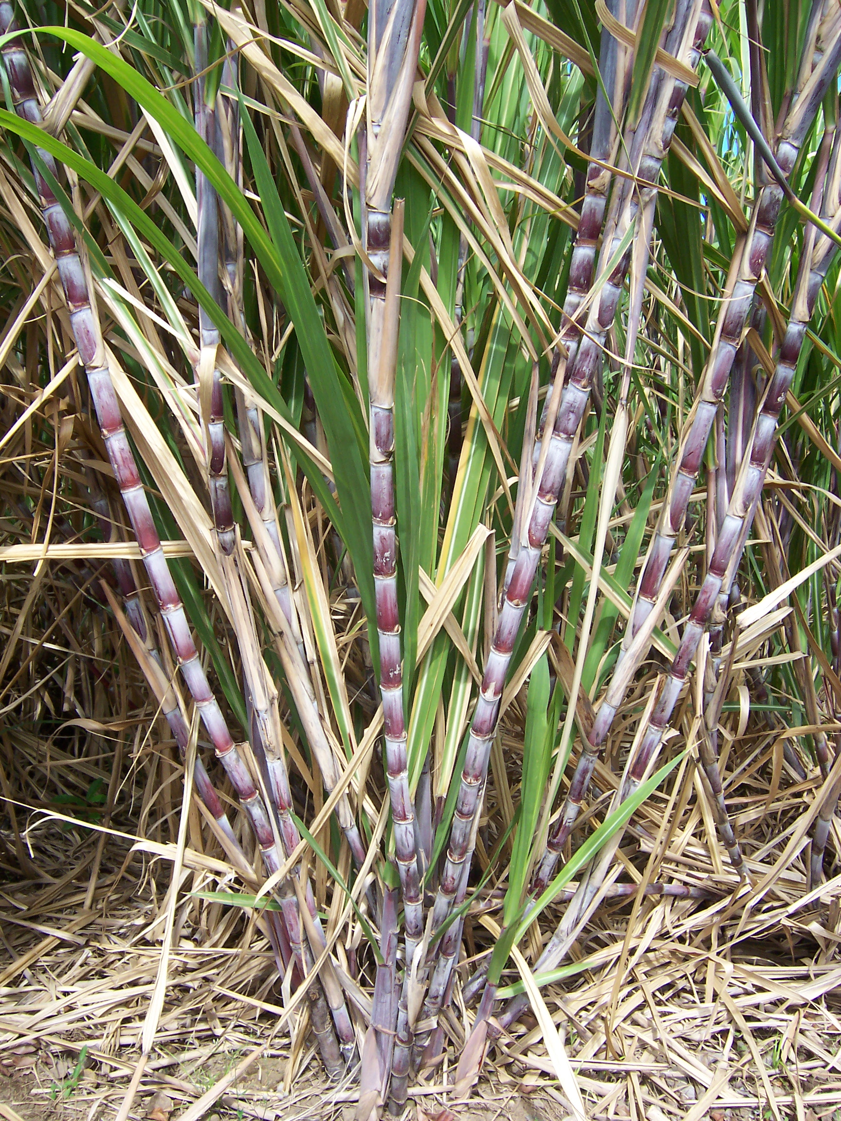 canes of Saccharum officinarumon Réunionisland